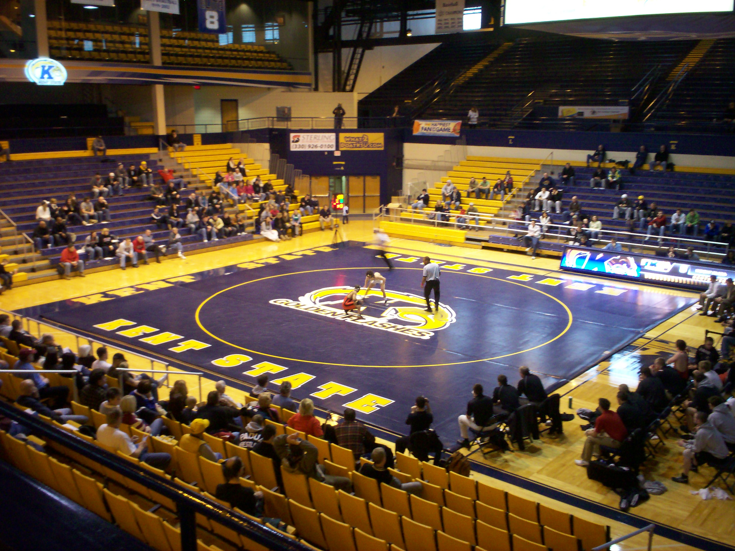 Photo of wrestling meet at the MAC Center between the Kent State Golden Flashes and the Northern Illinois Huskies.